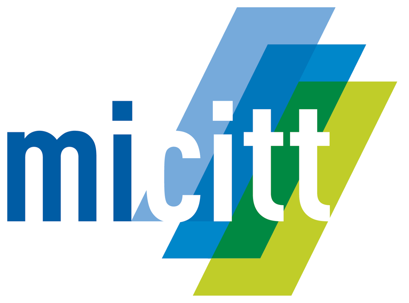 logo Ministerio de Ciencia, Tecnología y Telecomunicaciones